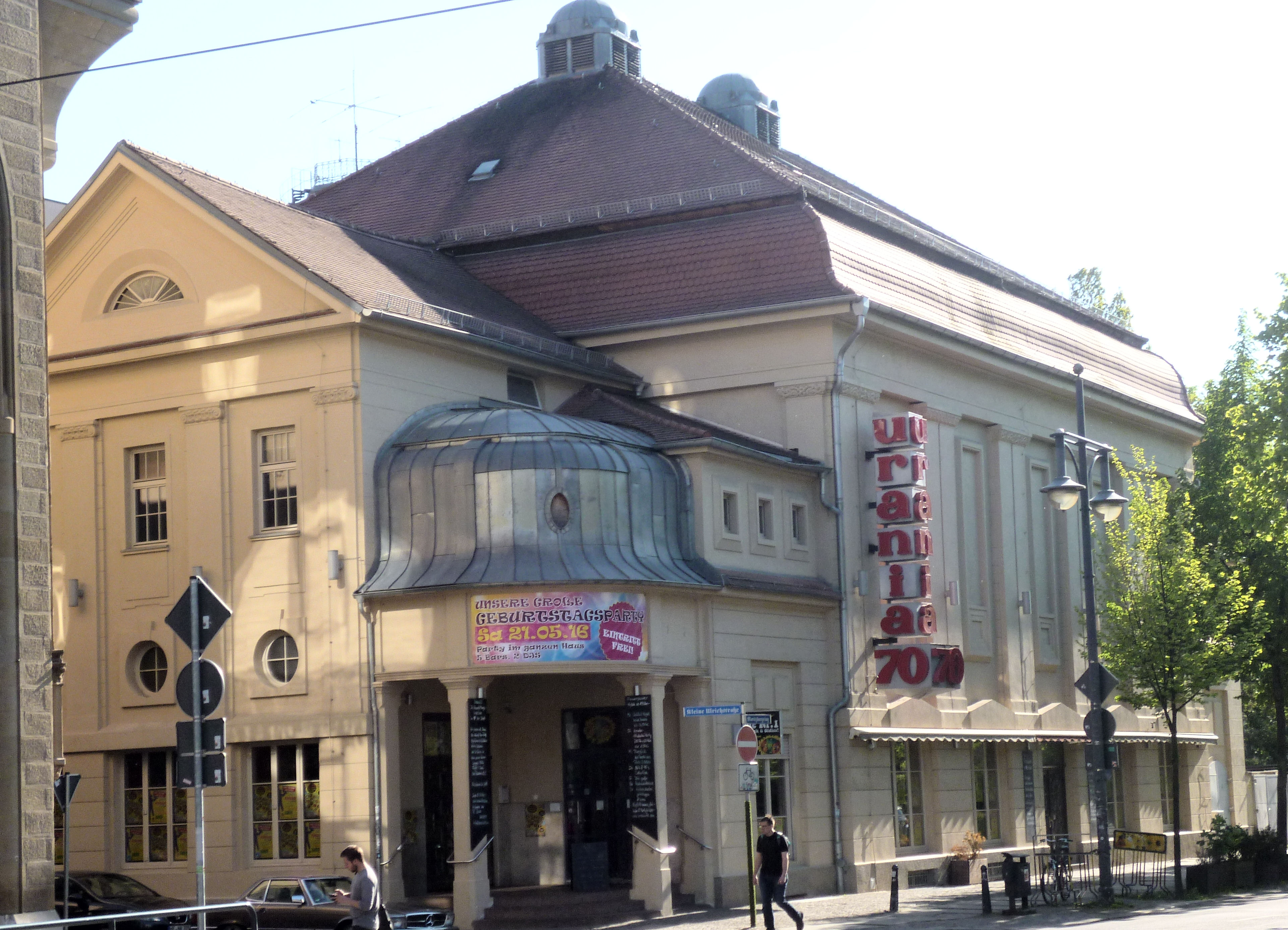 House No. 1 Moritzburgring in Halle (Saale), former movie theater Astoria, later Urania 70